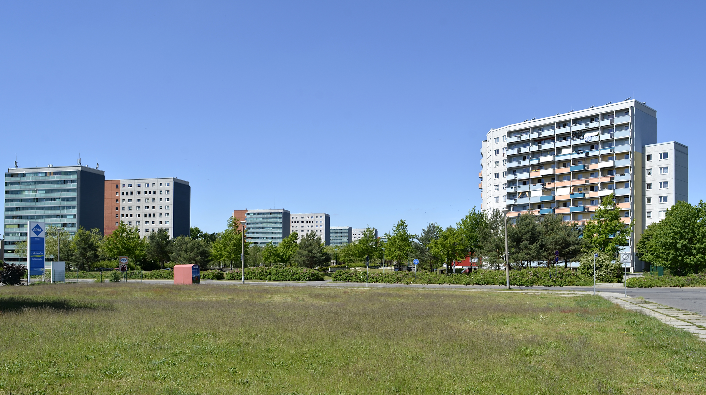 Modernized Plattenbauten at Gelsenkirchener Allee in Cottbus-Sachsendorf. Here they are shown just east of the intersection with Ricarda-Huch-Straße.